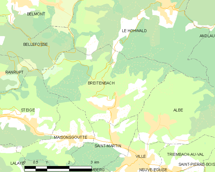 Map of French municipality